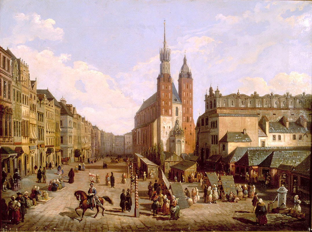 Market Square in Cracow in 1836